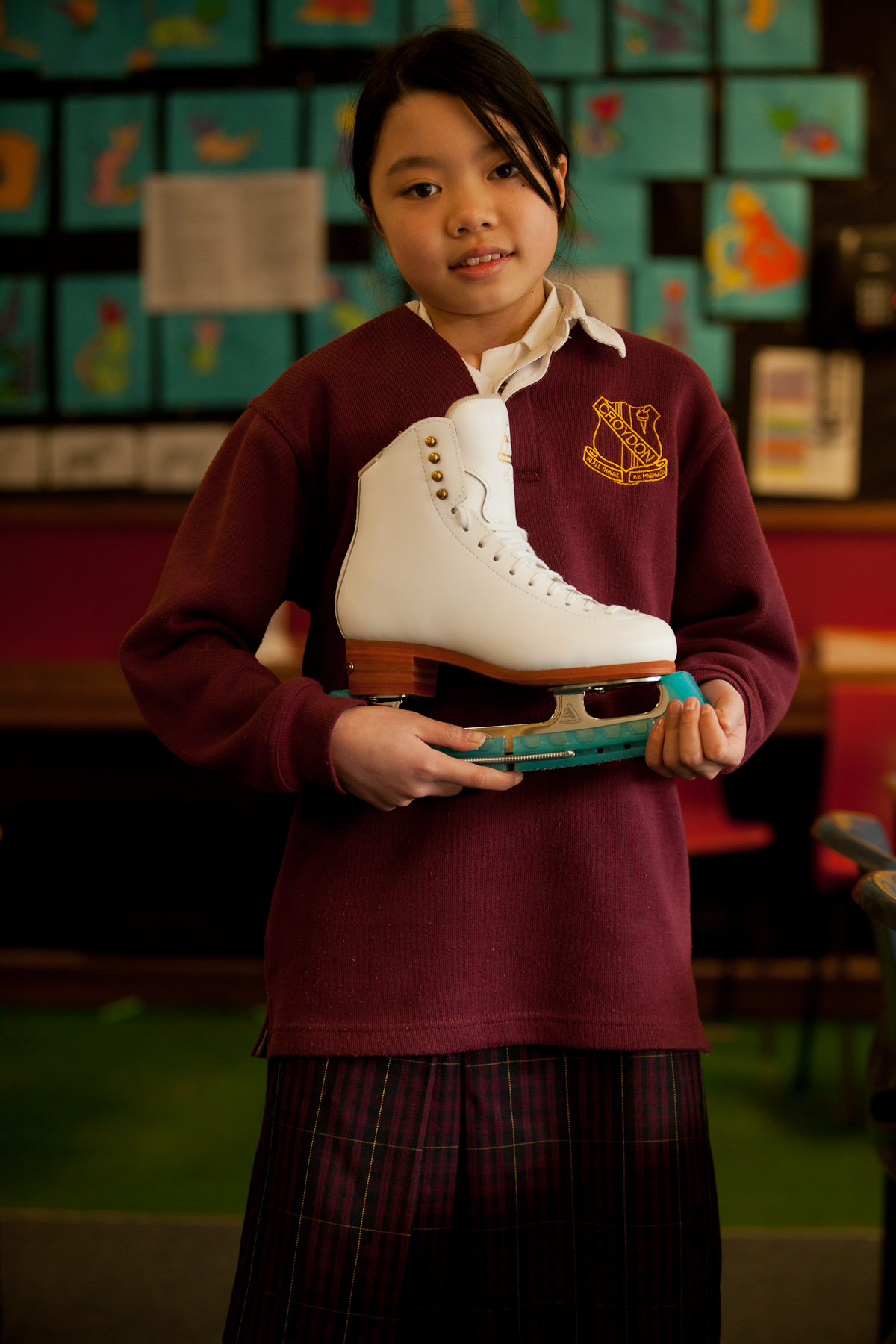 A student at Croydon Public School presents her very own poetry object.